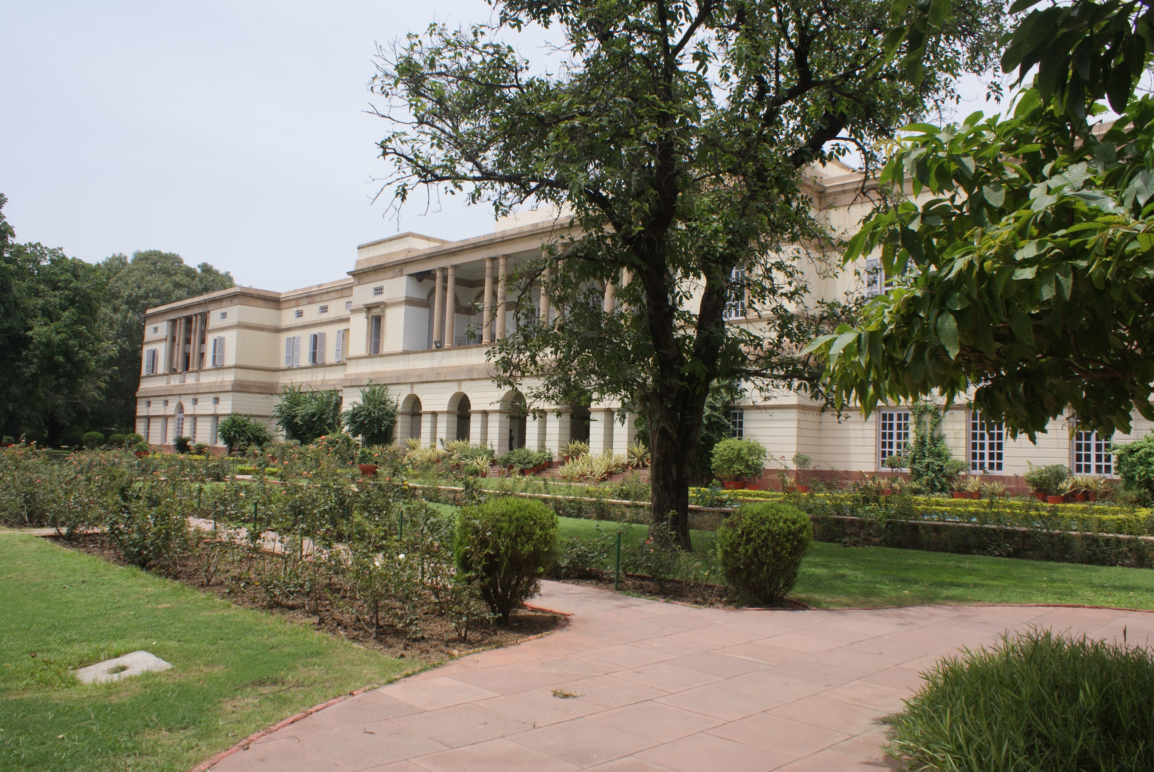 View of Teen Murti House